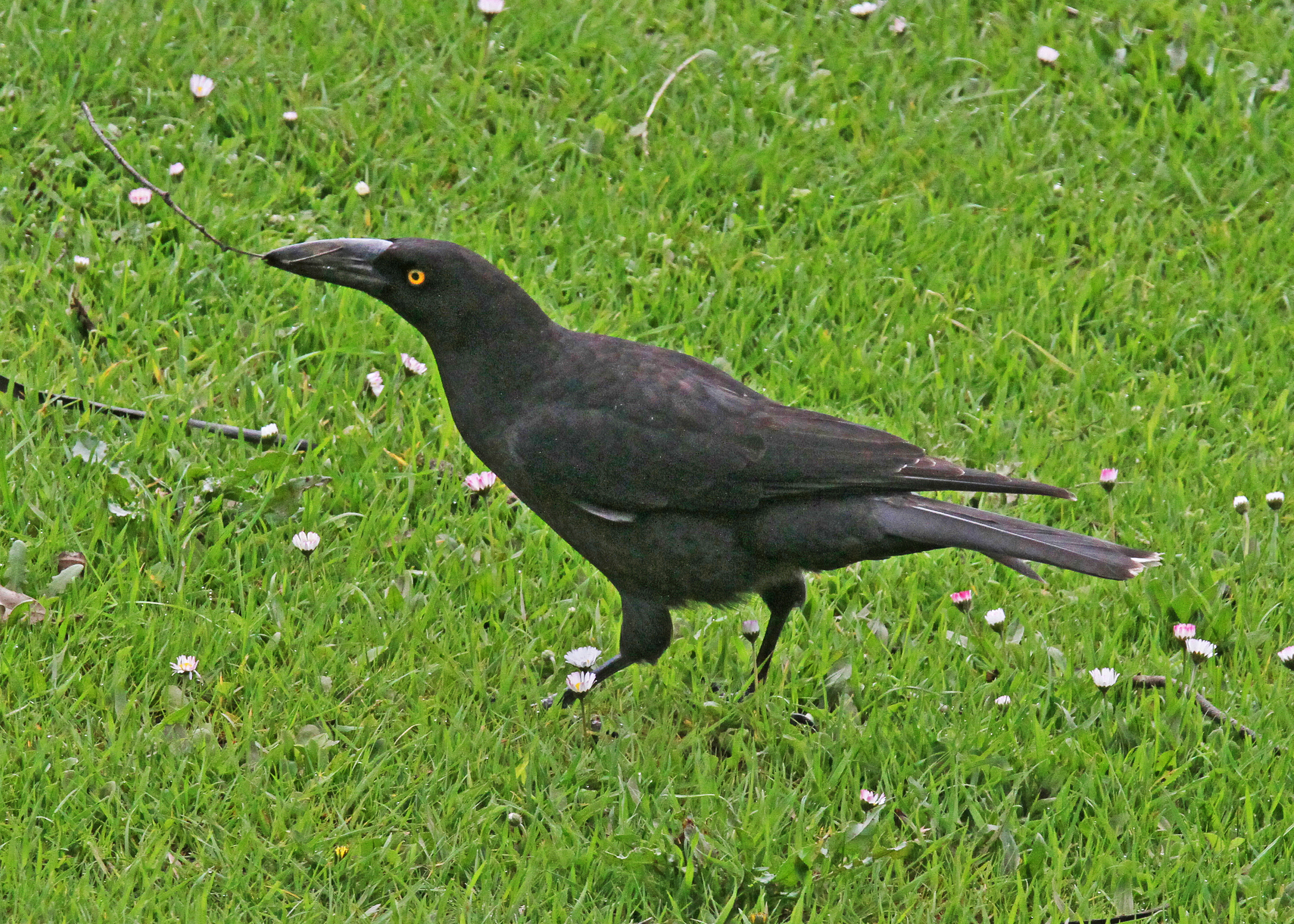 photo of Black Currawong